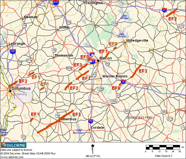 Map showing the 14 confirmed tornado tracks in central Georgia (NWS Peachtree City jurisdiction) on March 1, 2007.